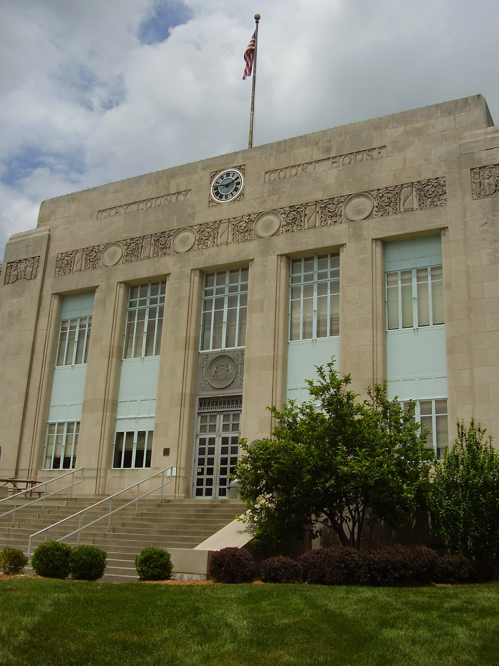 Photo Taken in May 2006 by User:KHill-LTown. South side of the Clay County, Missouri Courthouse in Liberty, built in 1934 after the previous one burned down.